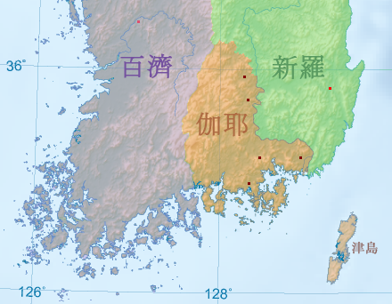 Map of Gaya (Version Chinese characters)